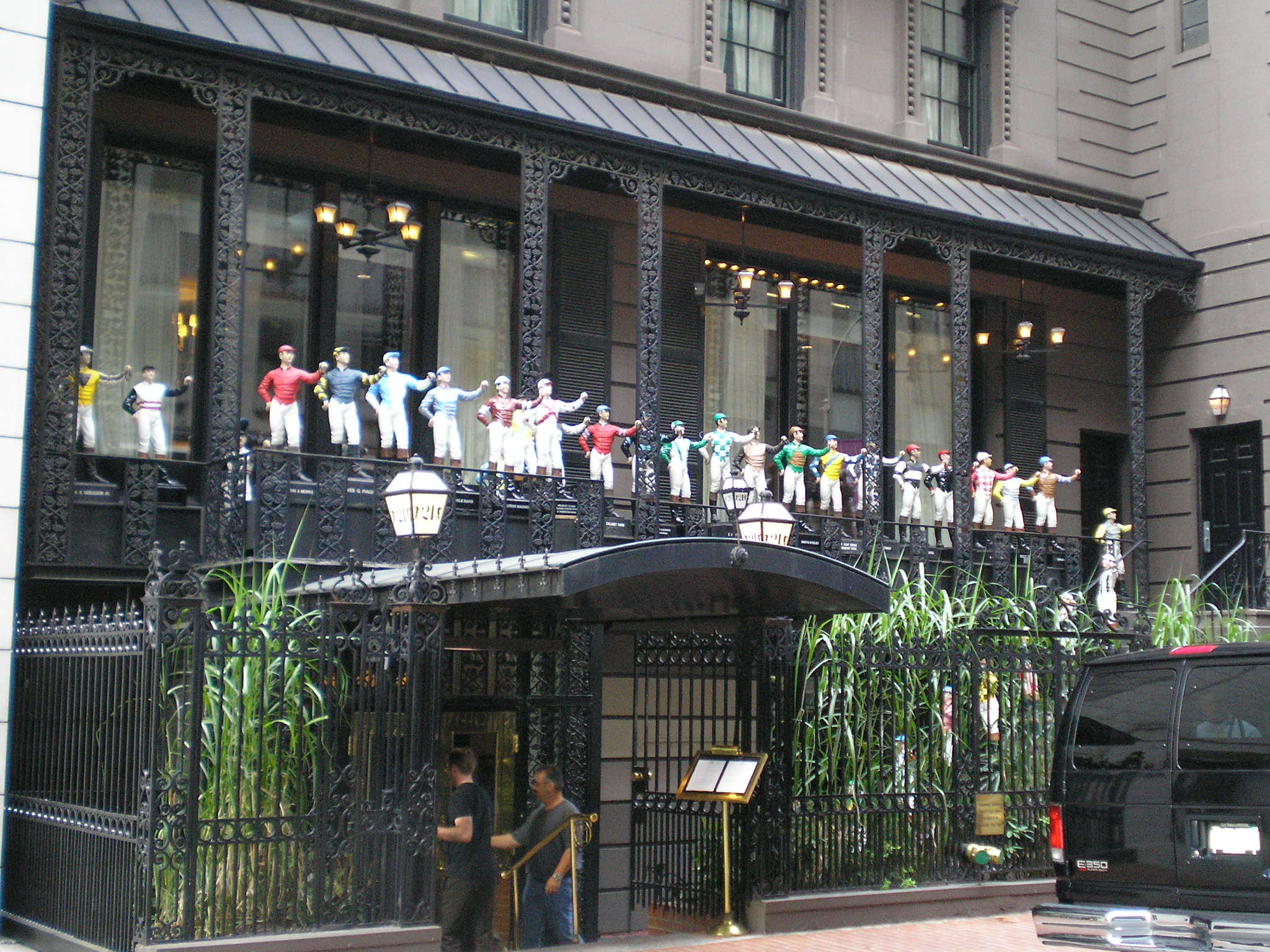 21 Club in New York City.